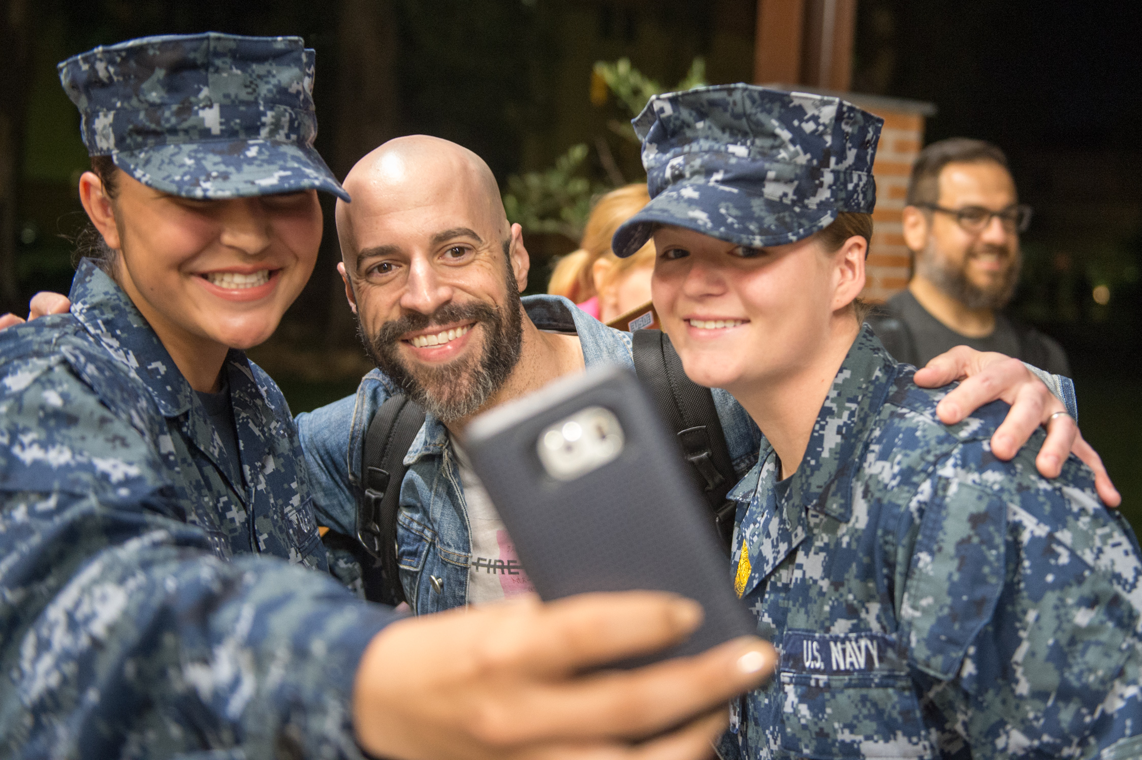 Musician Chris Daughtry takes photos with US service members during a USO visit at Naval Air Station Sigonella, Italy, Dec. 5, 2015. The USO offers a variety of programs and services designed to support our service members and their families. (DoD photo by D. Myles Cullen/Released)